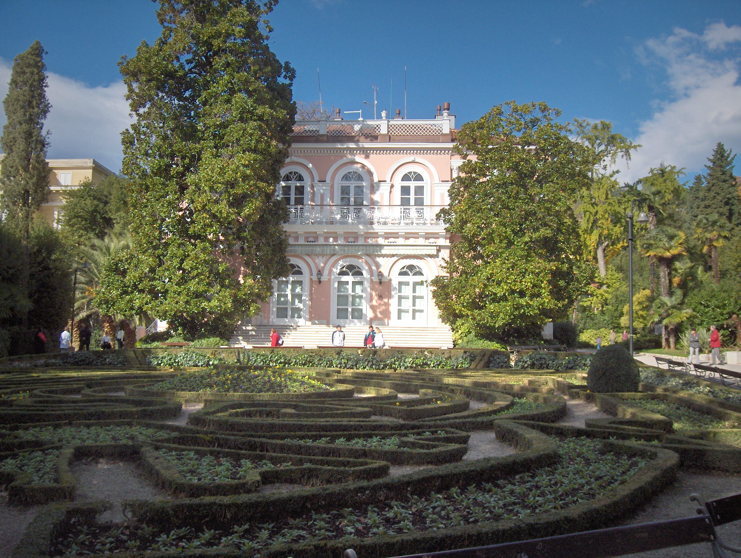 Villa Angiolina surrounded by the park Angiolina; Opatija, Croatia